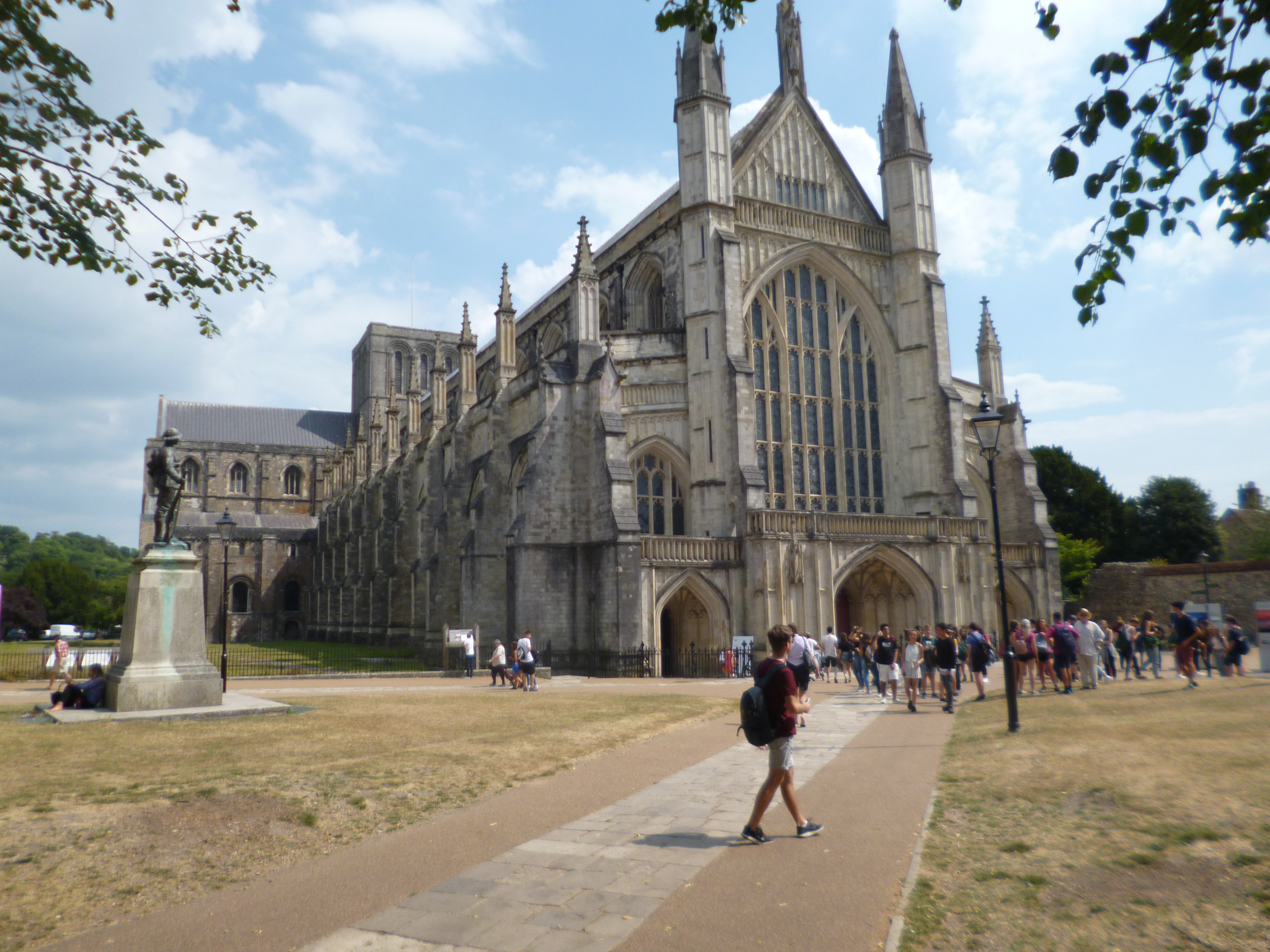 Winchester Cathedral in the summer.